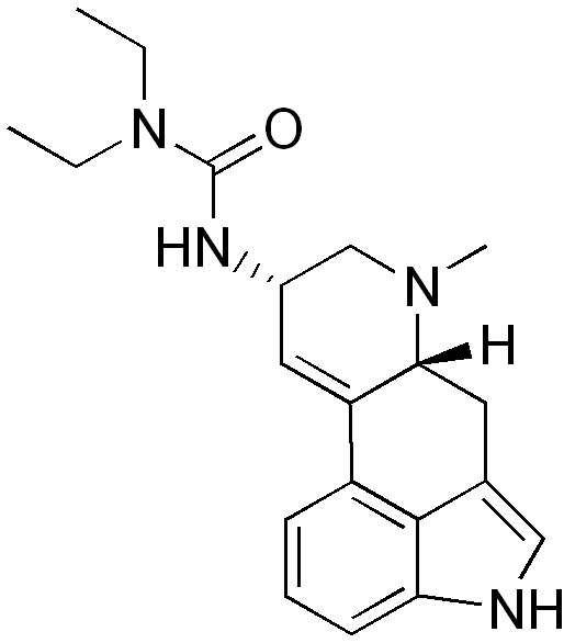 chemical structure of lisuride